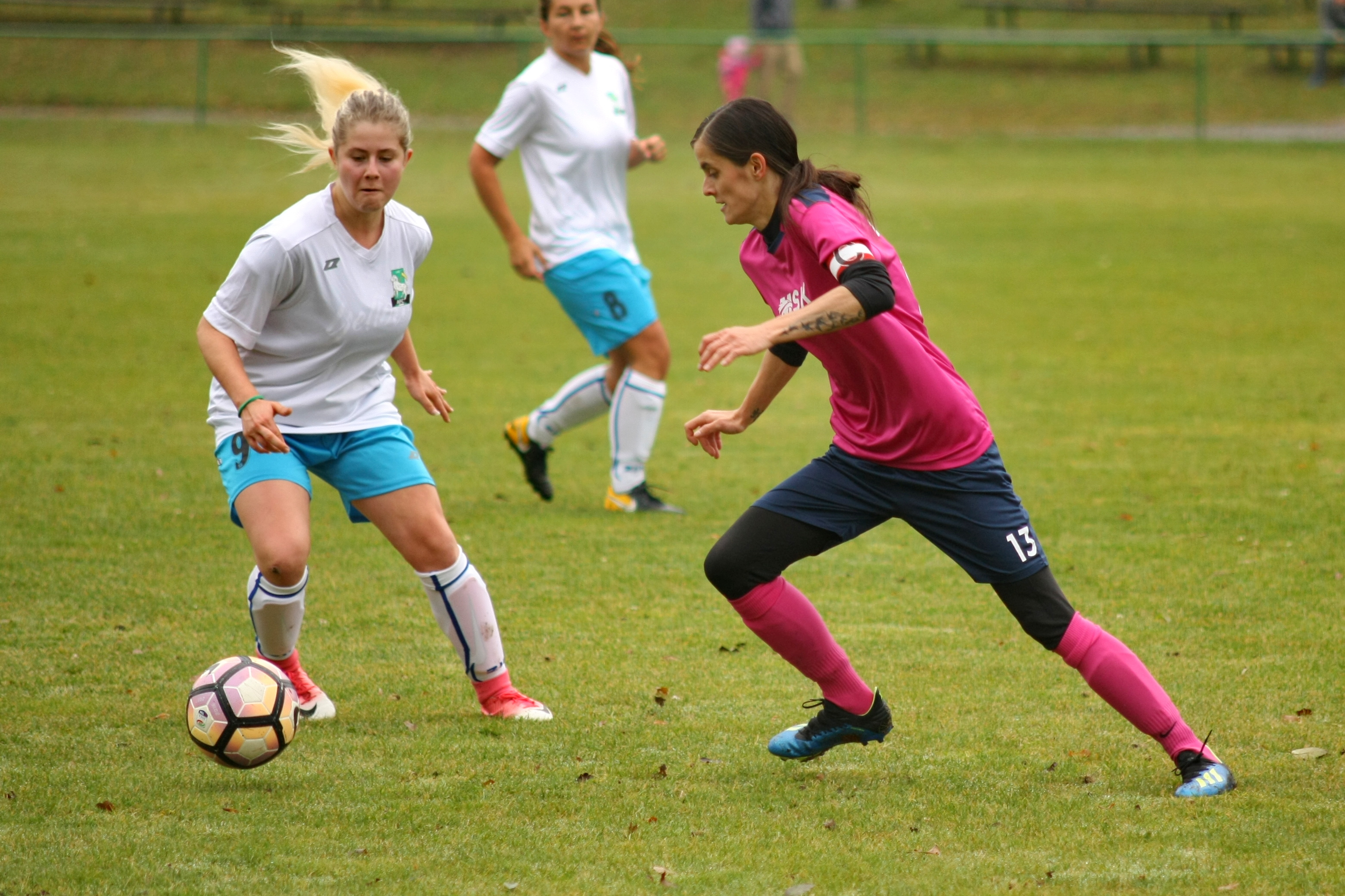 AFC Veřovice - MSK Orlová match in Moravian-Silesian women's league played on 20 October 2018